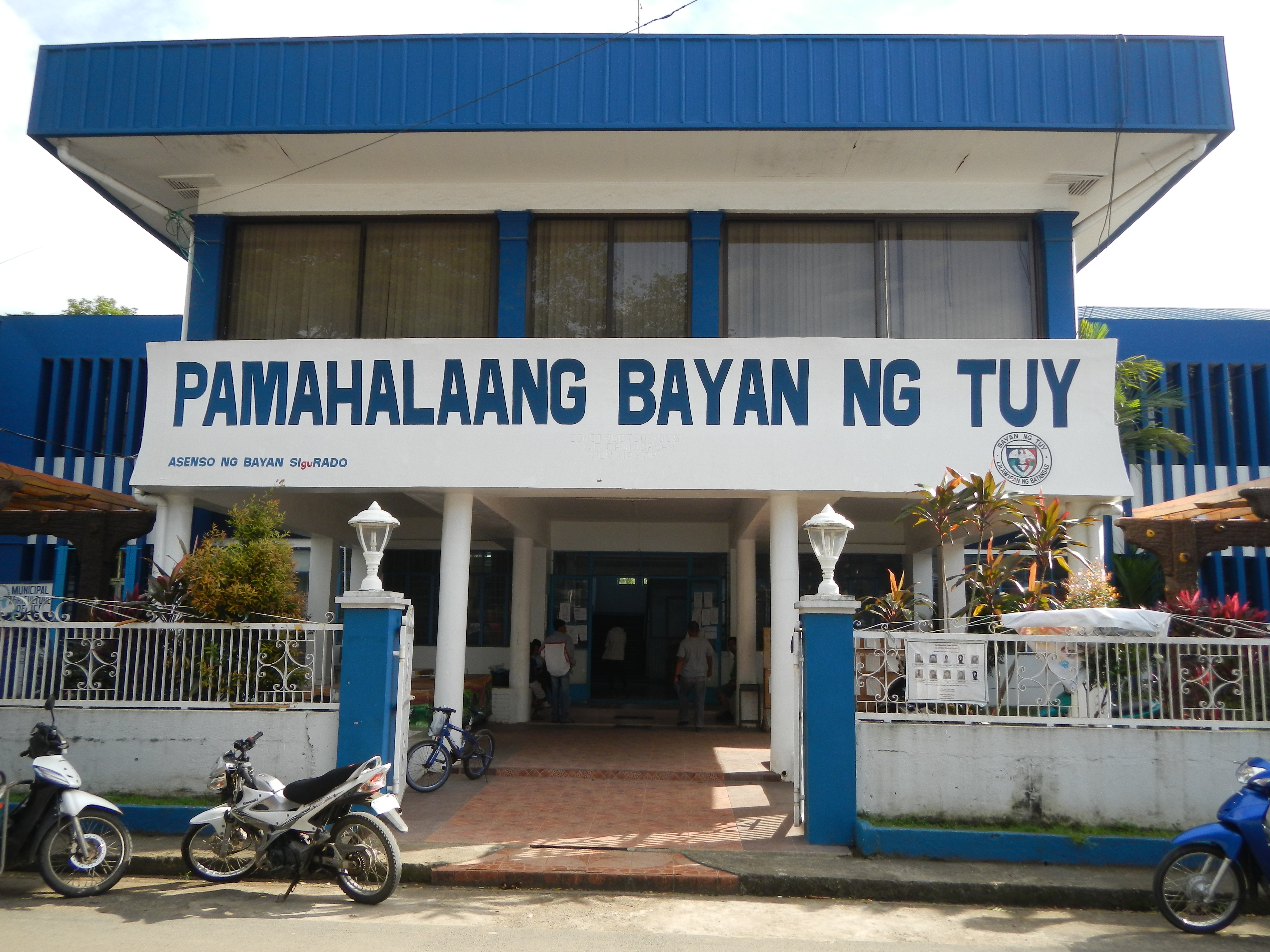 Upload Wizard photos of - Tuy, Batangas[1] (a third class municipality in the Province of Batangas, Philippines; politically subdivided into 22 barangays; population of 40,246 people in 8,925 households.) - its official and logo [2], the - Tuy Municipal Hall Complex offices, Coordinates: 14°1'7"N 120°43'48"E, including the Sangguniang Bayan Session Hall and Offices, Town Proper,Town Plaza, Covered Basketball Court, Gomez st. cor. Rizal st., Barangay Luna Hall, Municipal Engineer's Office, Tuy Food Plaza, Tuy Public Market, Plaza, Park, Centro, downtown, Town Proper, TMVCMPC, Police Station, Tuy Vocational School, among others - Our Lady of Peace Academy Coordinates: 14°1'12"N 120°43'50"E [3] - Saint Vincent Ferrer Parish Church of Tuy, Batangas, Vicariate I: Vicariate of Saint Francis Xavier, [4] belongs to the Roman Catholic Archbishop of Lipa[5] [6] Roman Catholic Archdiocese of Lipa.